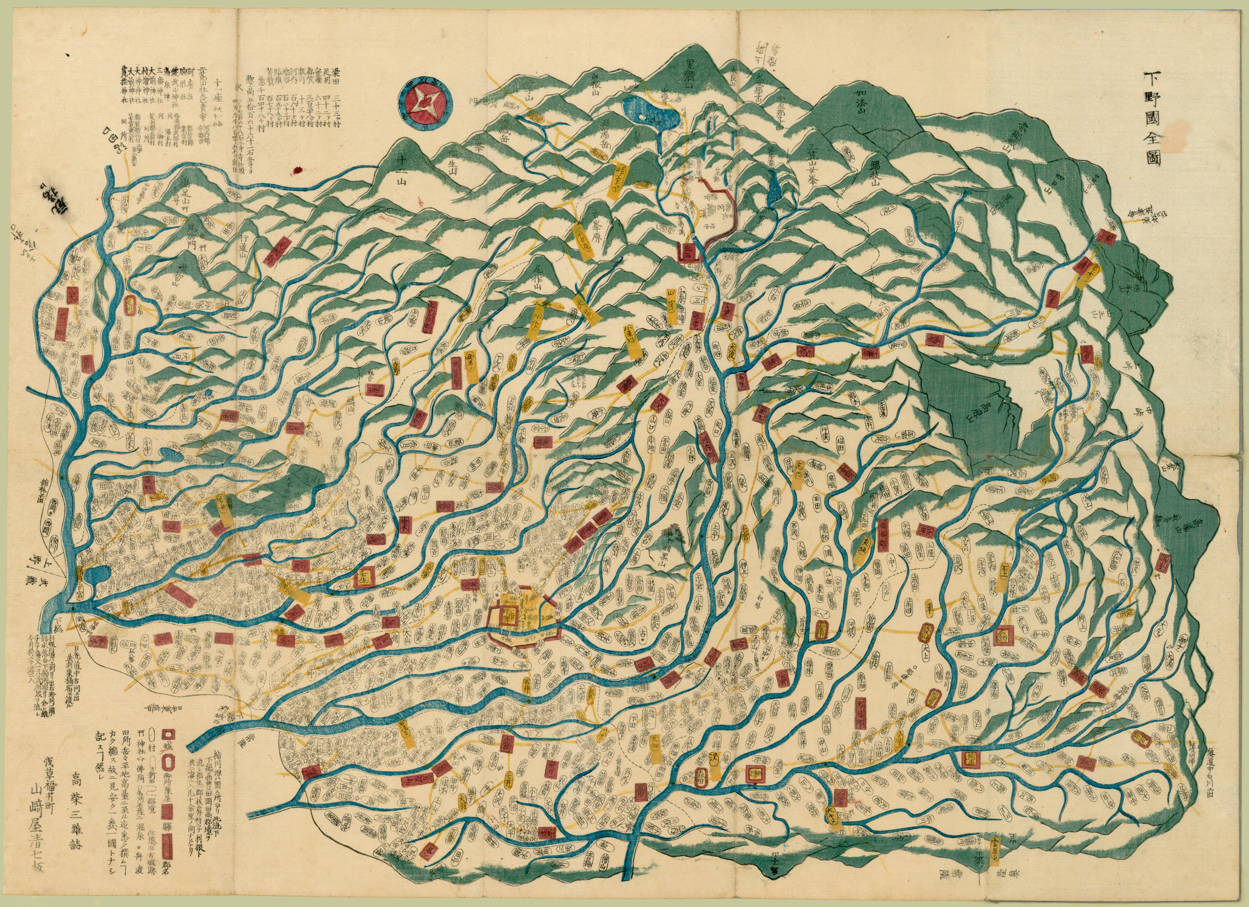 No known copyright restrictions. Please credit UBC Library as the image source. For more information, see Alternative Title: Shimotsuke no Kuni zenzu Creator: Yamazakiya, Seishichi Date Issued: 1804 Source: University of British Columbia Library - Rare Books and Special Collections. Japanese Maps of the Tokugawa Era. Permanent URL